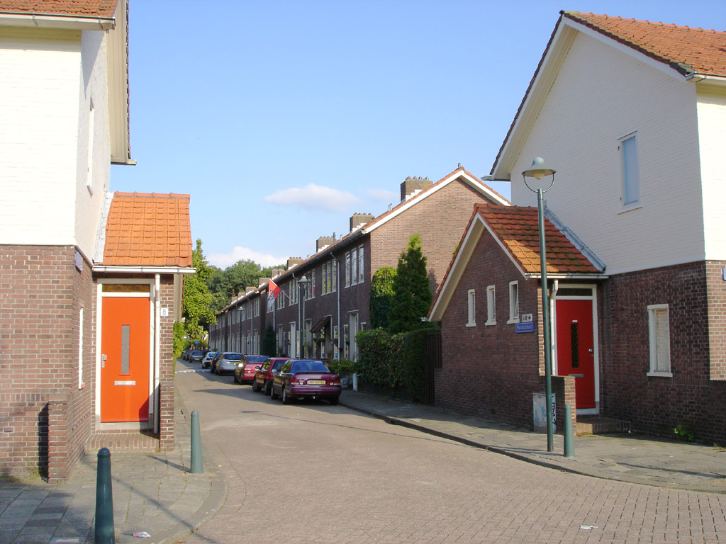 The Floretstraat in the deelgemeente IJsselmonde, district Sportdorp in Rotterdam, the Netherlands